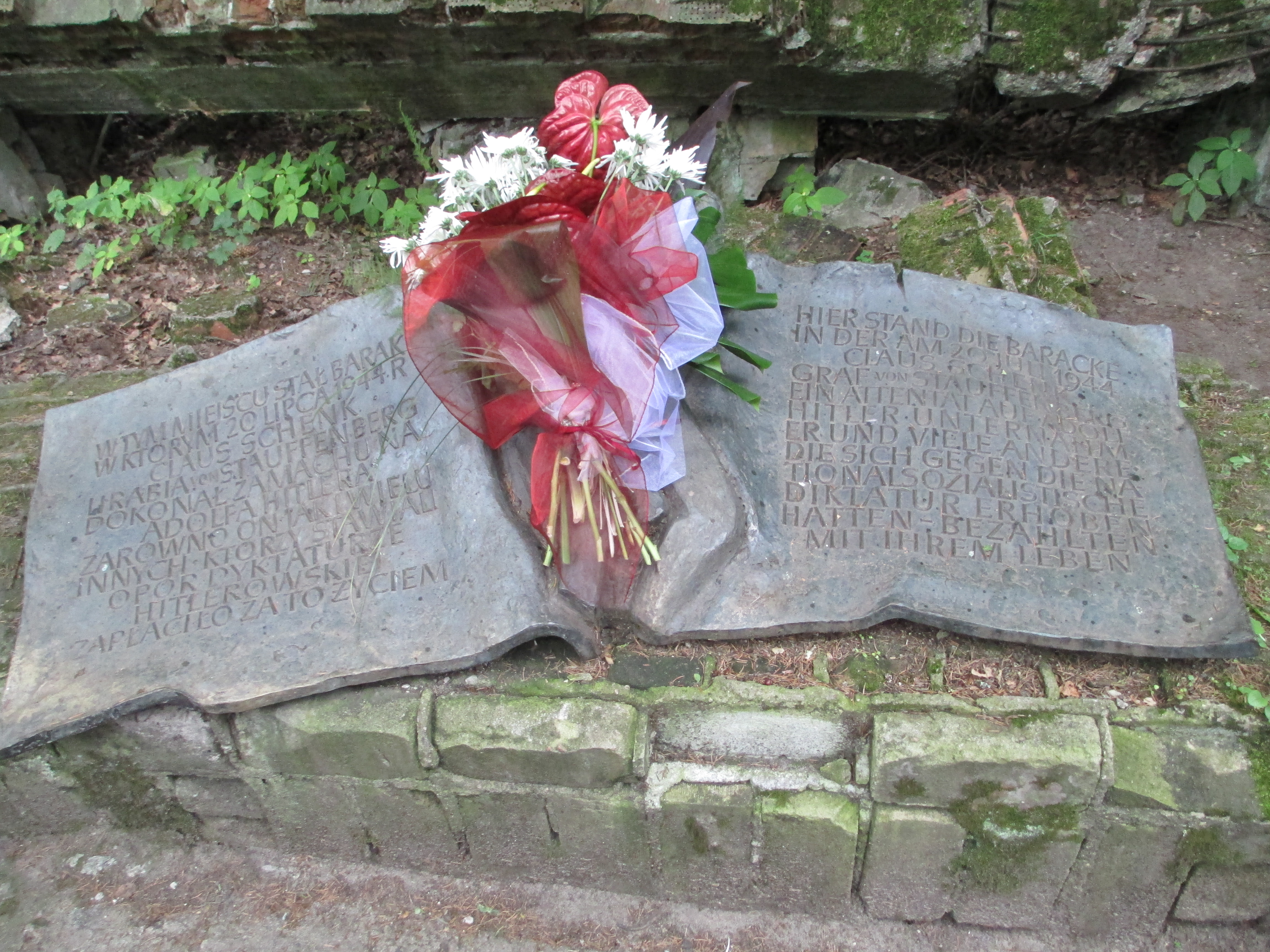 claus von staunfferberg memorial in wolfsschanze, poland